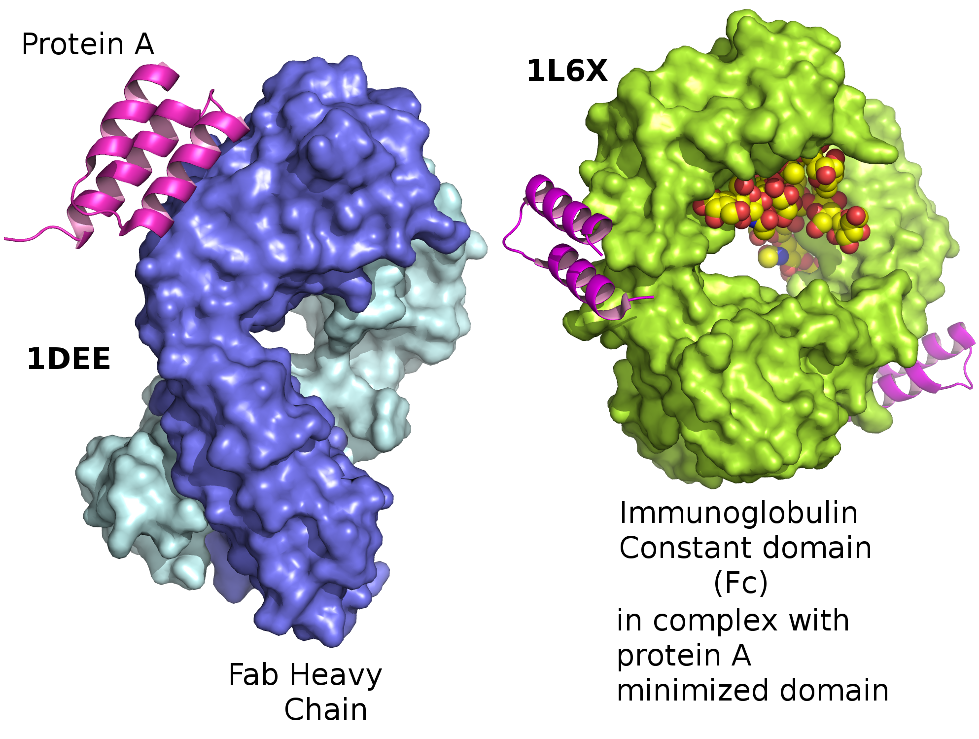 Staphylococcus aureus protein A bound to Fab (1DEE) and bound to an immunoglobulin Fc in its minimized form (1L6X)